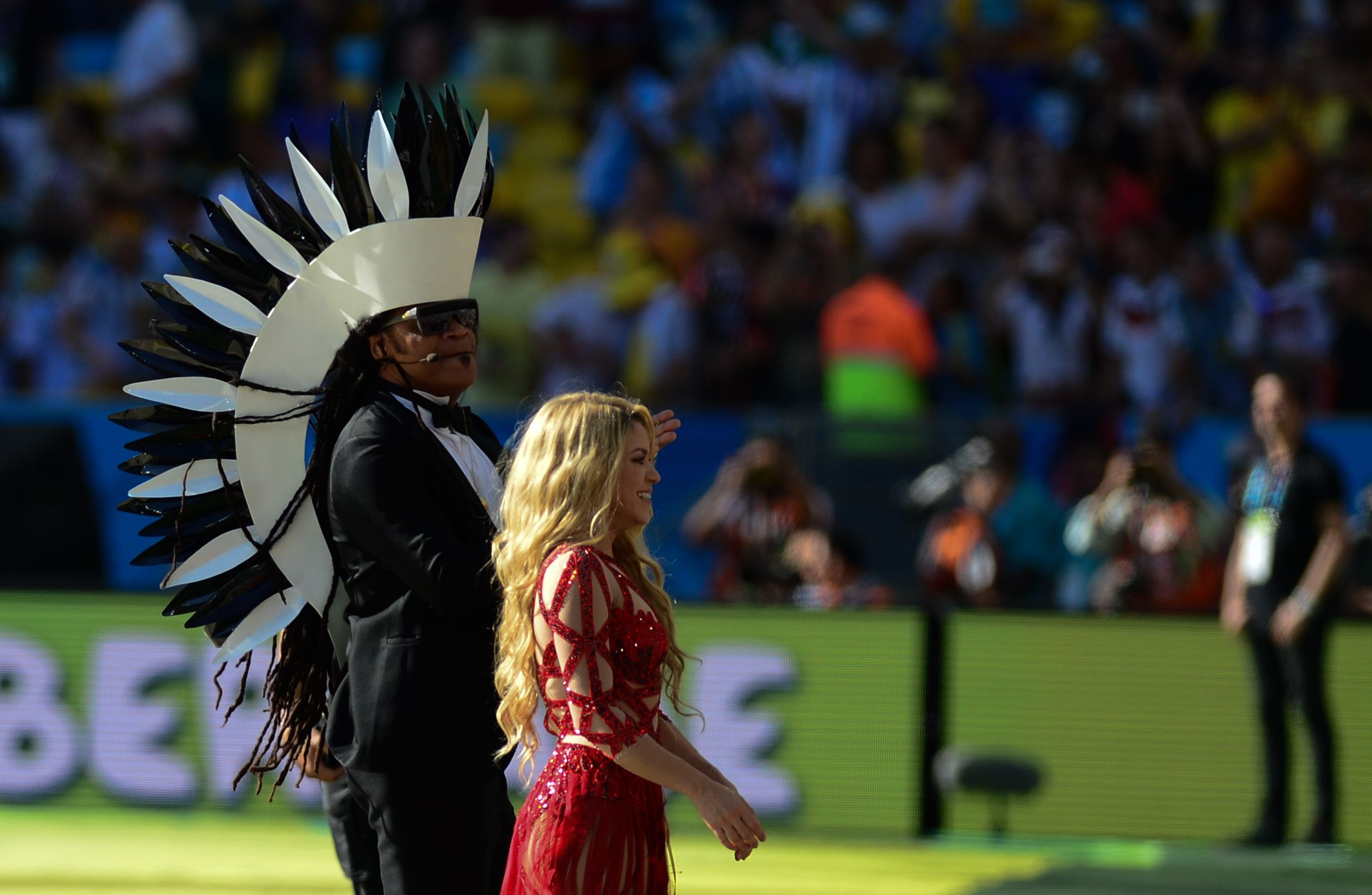 The Colombian singer Shakira and Brazilian singer Carlinhos Brown at the 2014 Fifa World Cup closing show, Rio de Janeiro, Brazil.